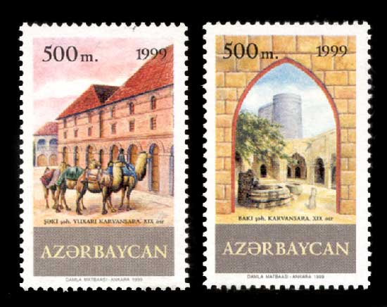 N 551 - 500 man. The internal yard of Caravanserai of the 19th century in Baku. N 552 - 500 man. Facade of the Upper Caravanserai of the 19th century in Sheki.